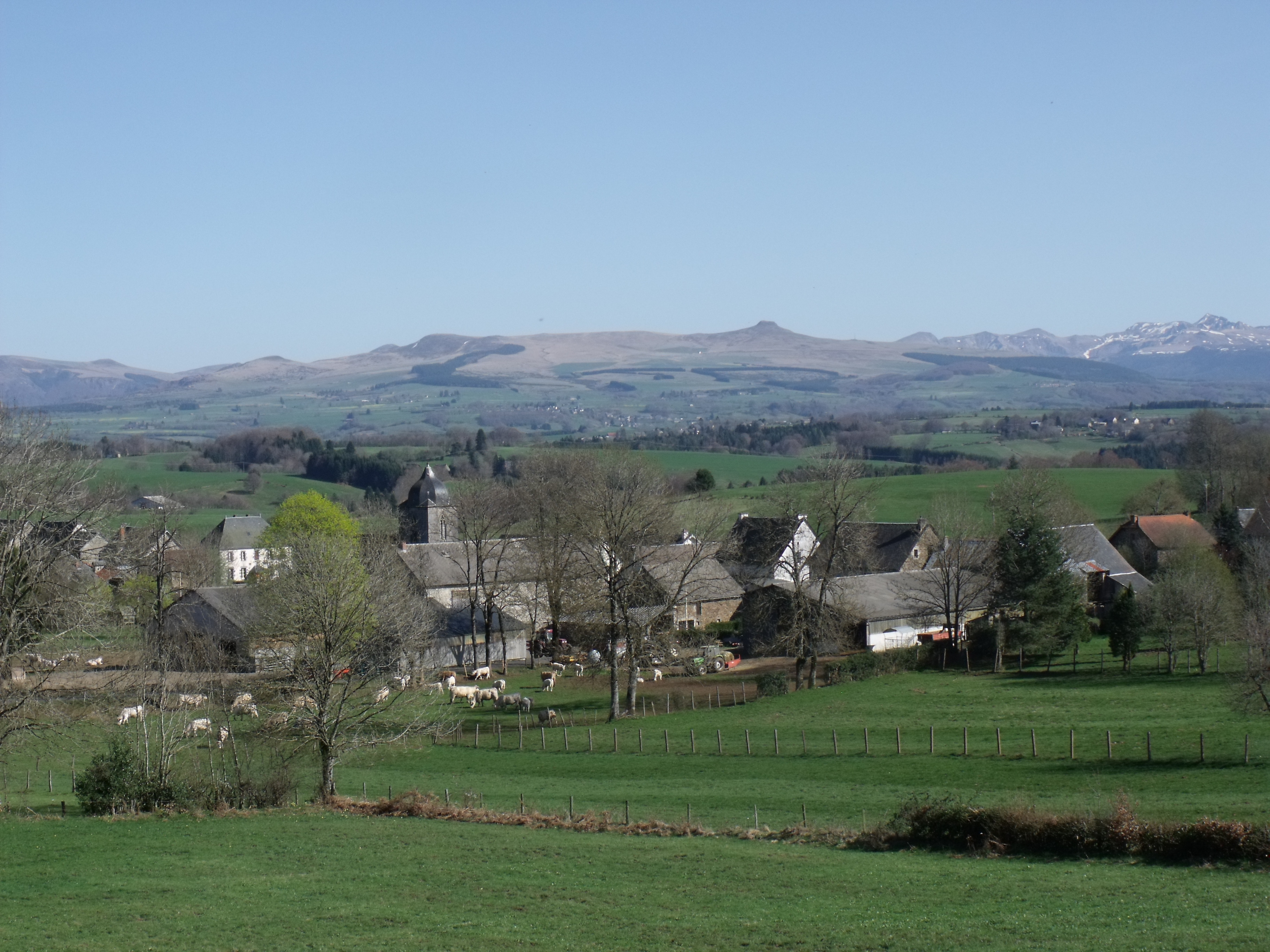 a picture of Briffons a little village at the west of Auvergne